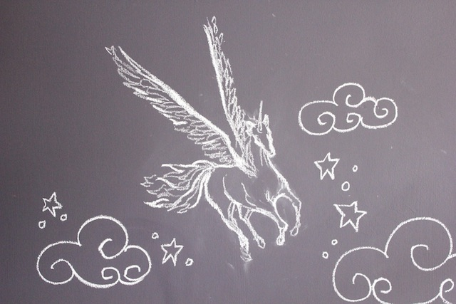 Chalk winged unicorn